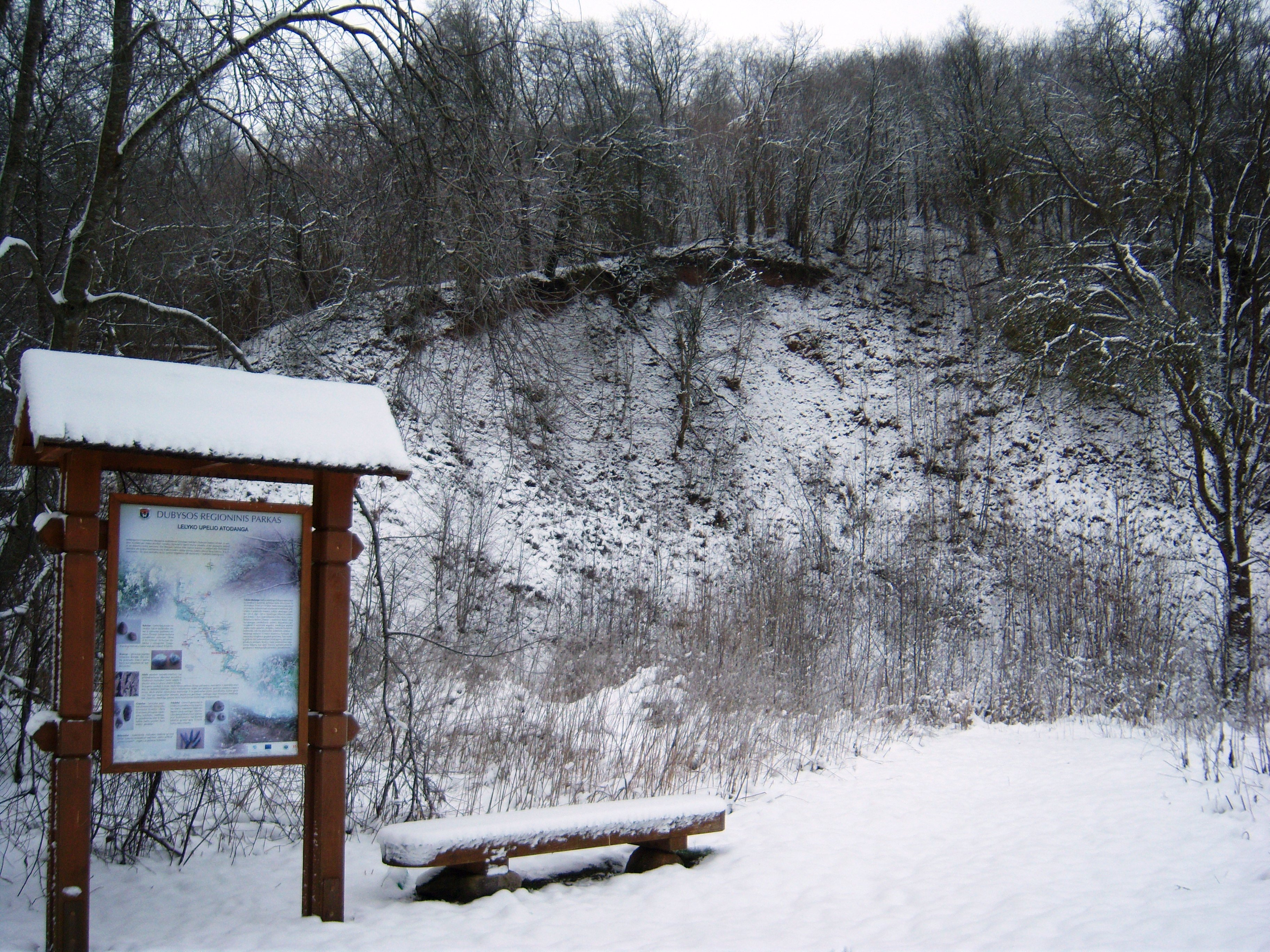 Exposure by Lelykas stream in Betygala, Raseiniai District, Lithuania